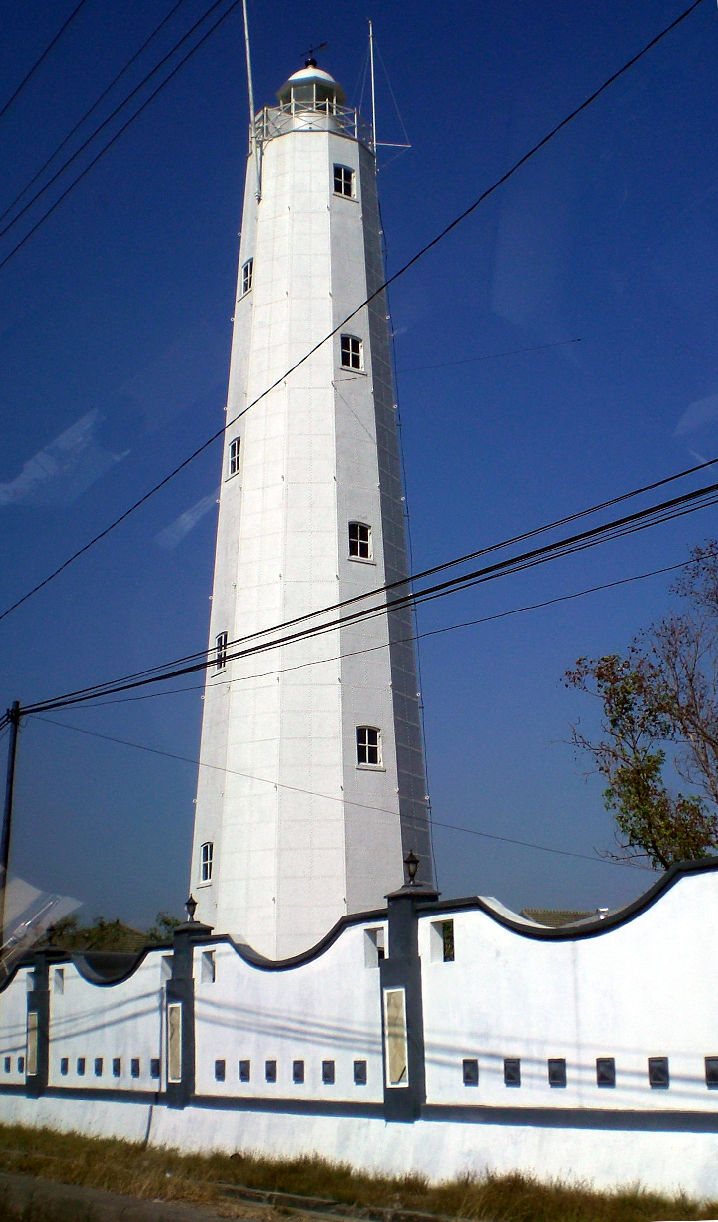 Semarang Lighthouse at Java, Indonesia